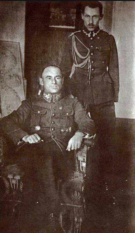 Edward Rydz-Śmigły and his advisor, Bogusław Miedziński in Lublin in 1917.